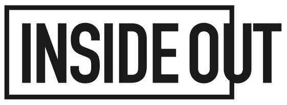 logo for Inside Out Project